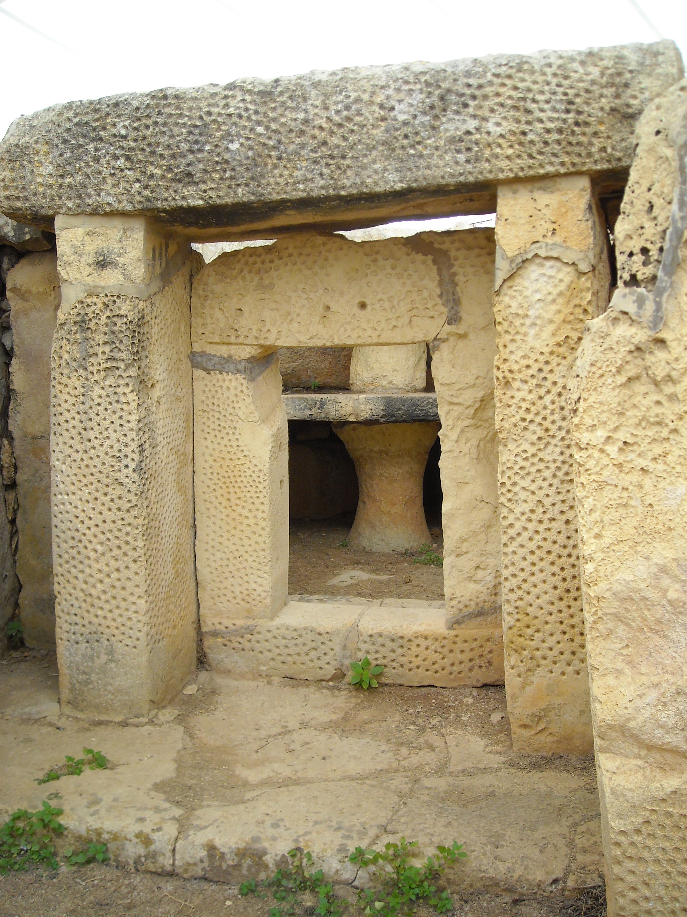 Mnajdra temple, Malta, detail